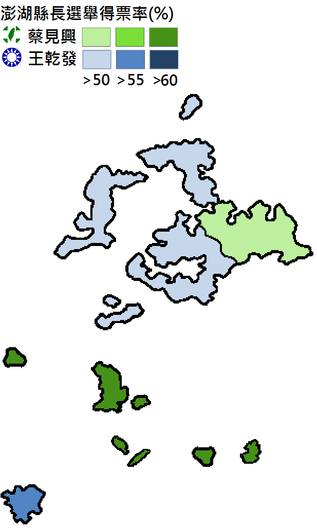 Penghu magistrate election 2009